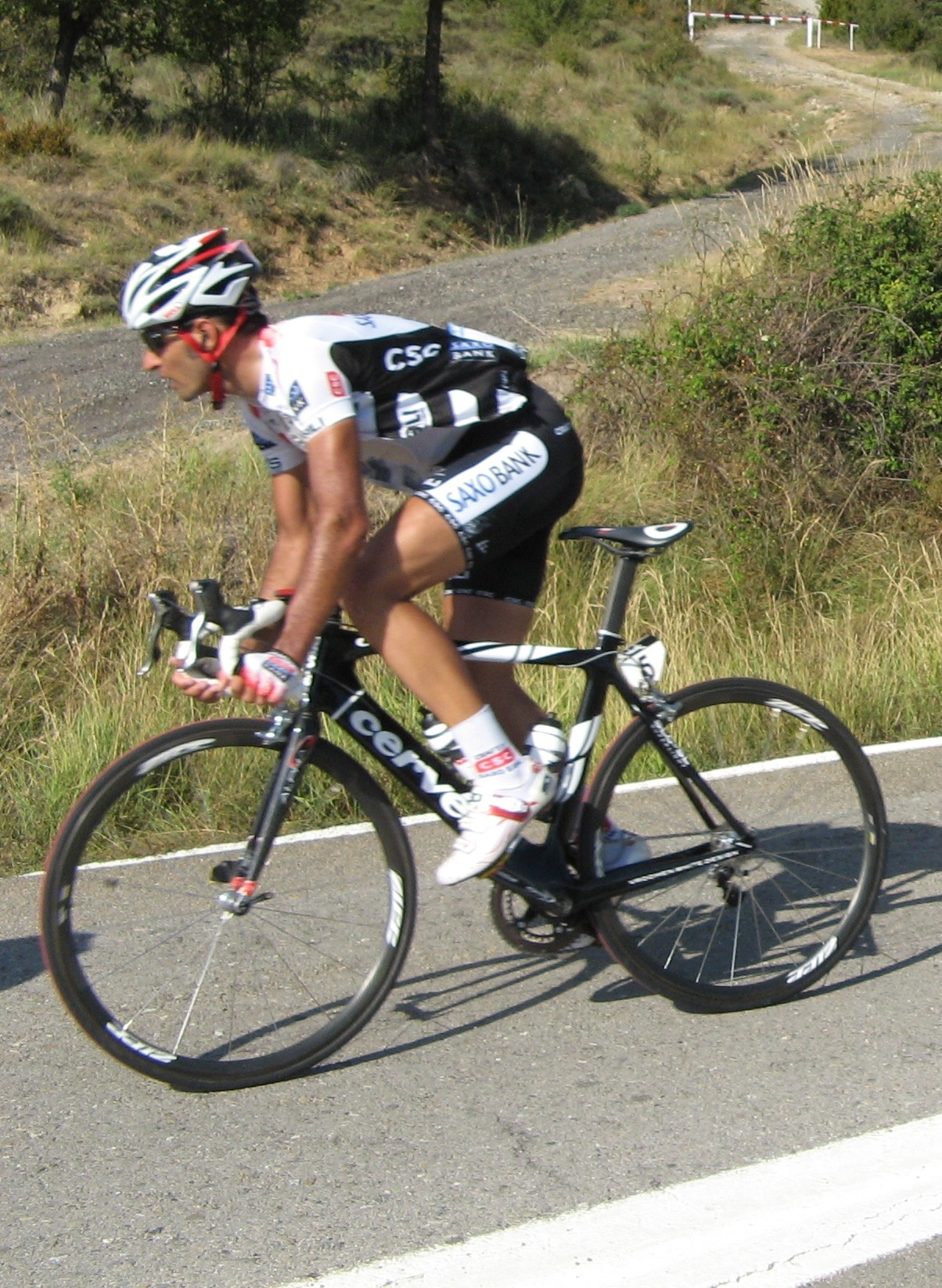 Juan José Haedo, 2008 Vuelta a España, 9th stage, Alto Gallego, Spain.